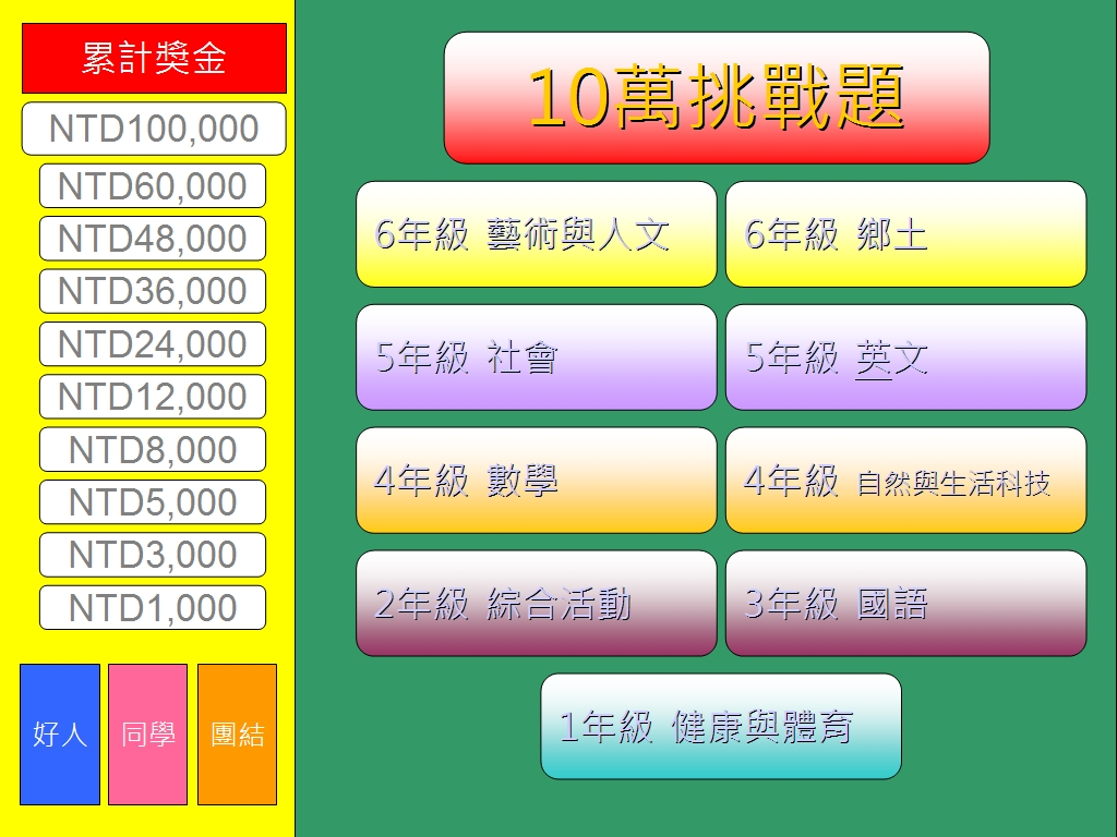 Screenshot simulation from the TV show Are You Smarter Than The Primary School Students? Taiwanese version.